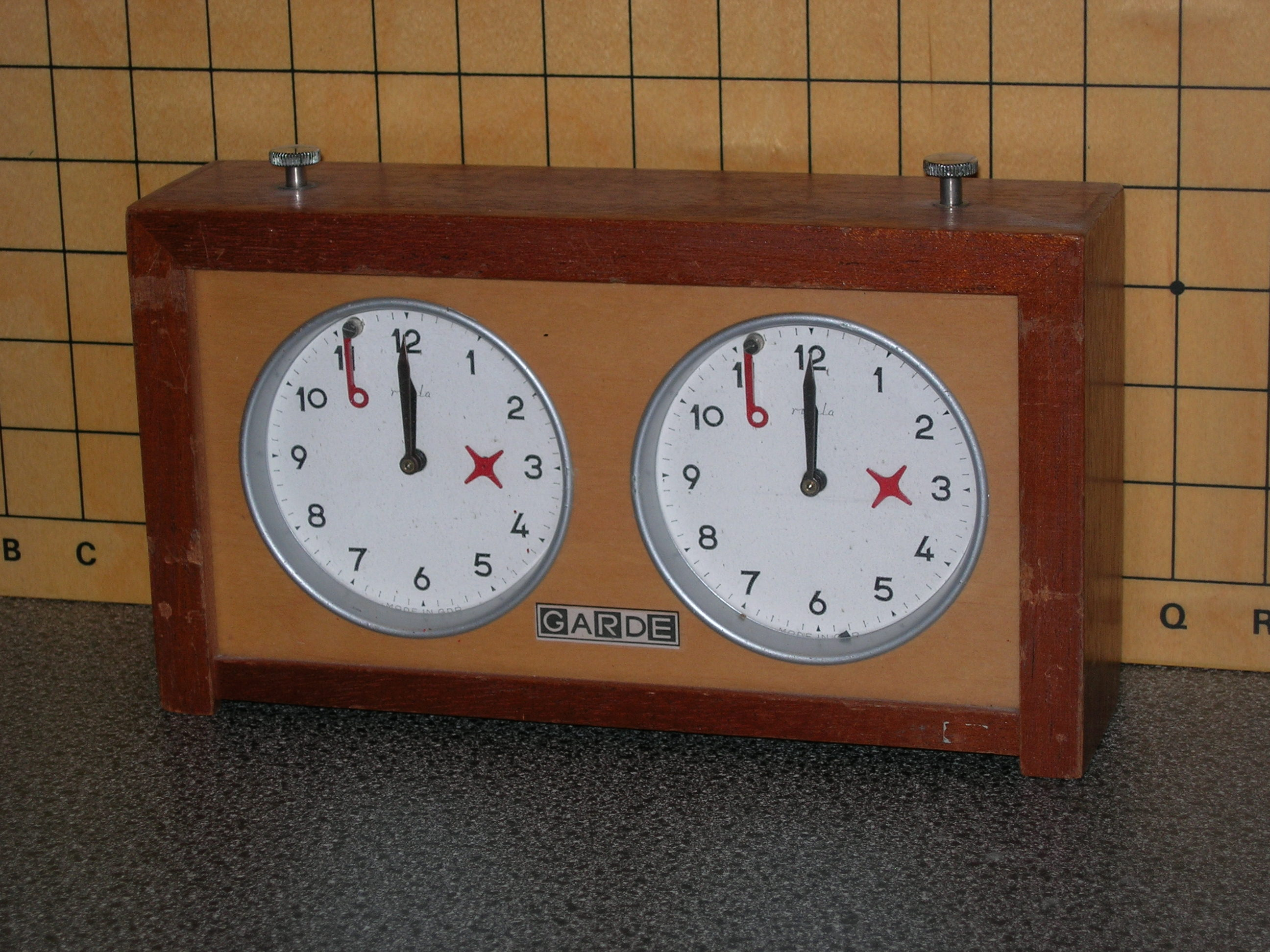 Old Garde chess clock that I bought 2nd hand in the 1980s, pictured against a Go board.